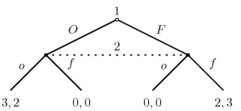 An extensive form representation of a battle of the sexes game with imperfect information